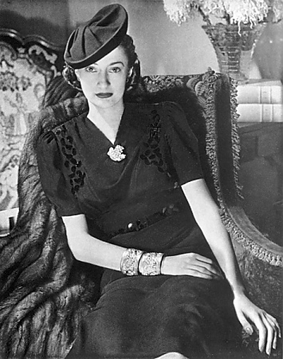 Princess Natalie of Bagration-Mukhrani daughter of Constantine Bagration-Mukhrani and Princess Tatiana Constantinovna of Russia